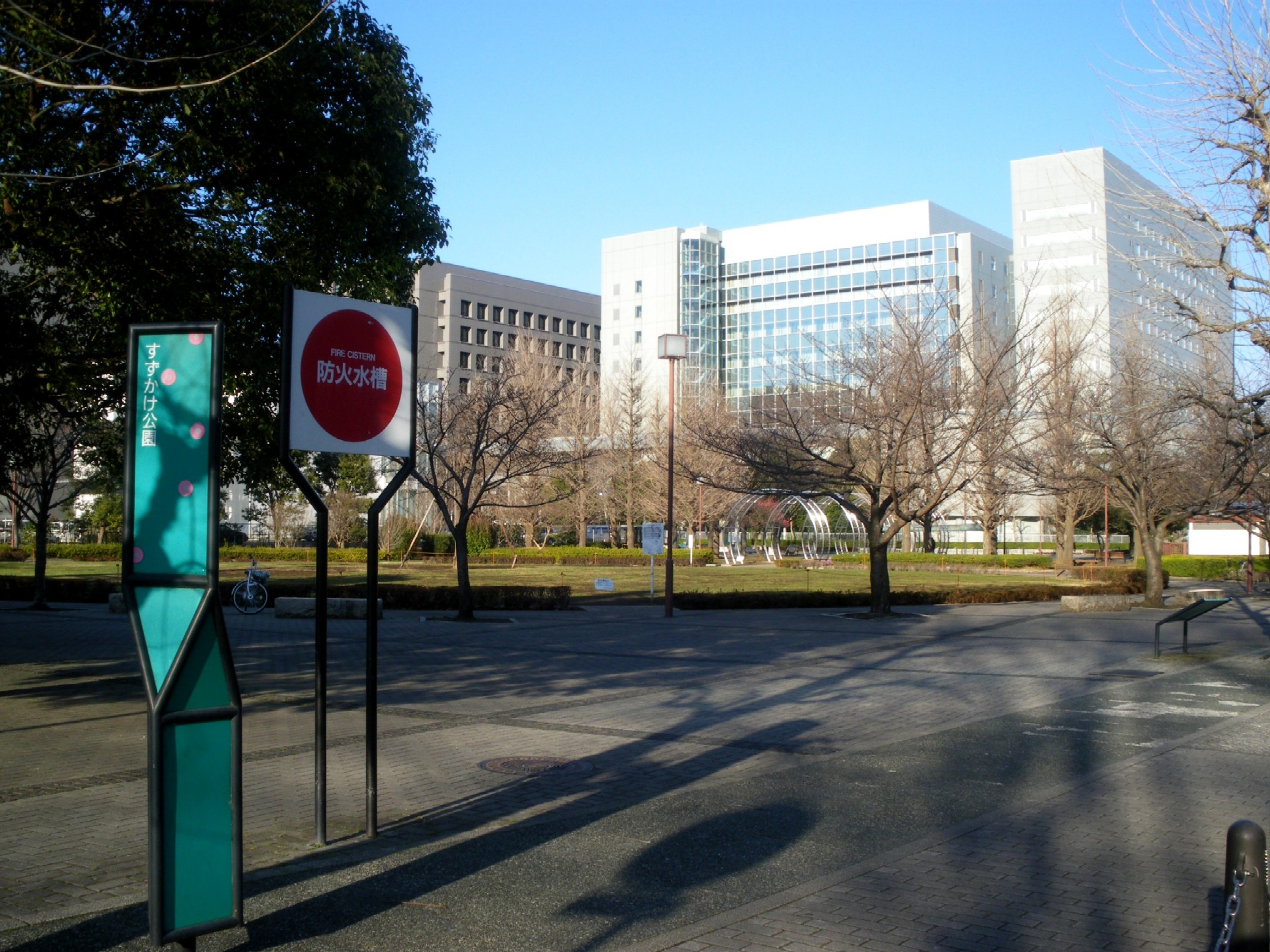 A photo of Suzukake park at Fuchu Intelligent Park,Nikkocho,Fuchu city,Tokyo,Japan.